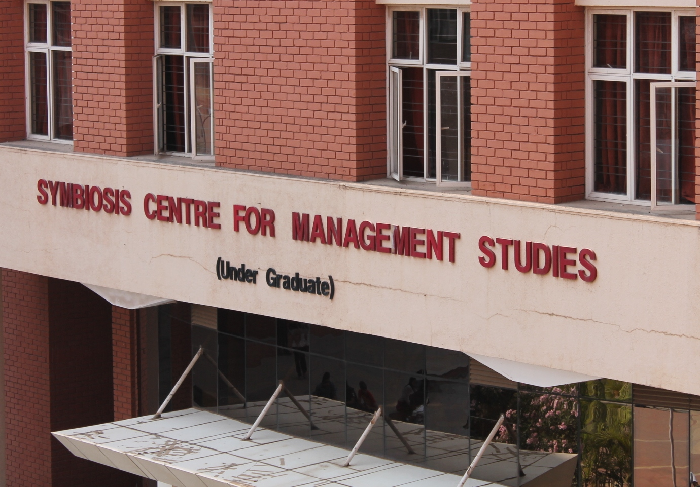 viman nagar campus